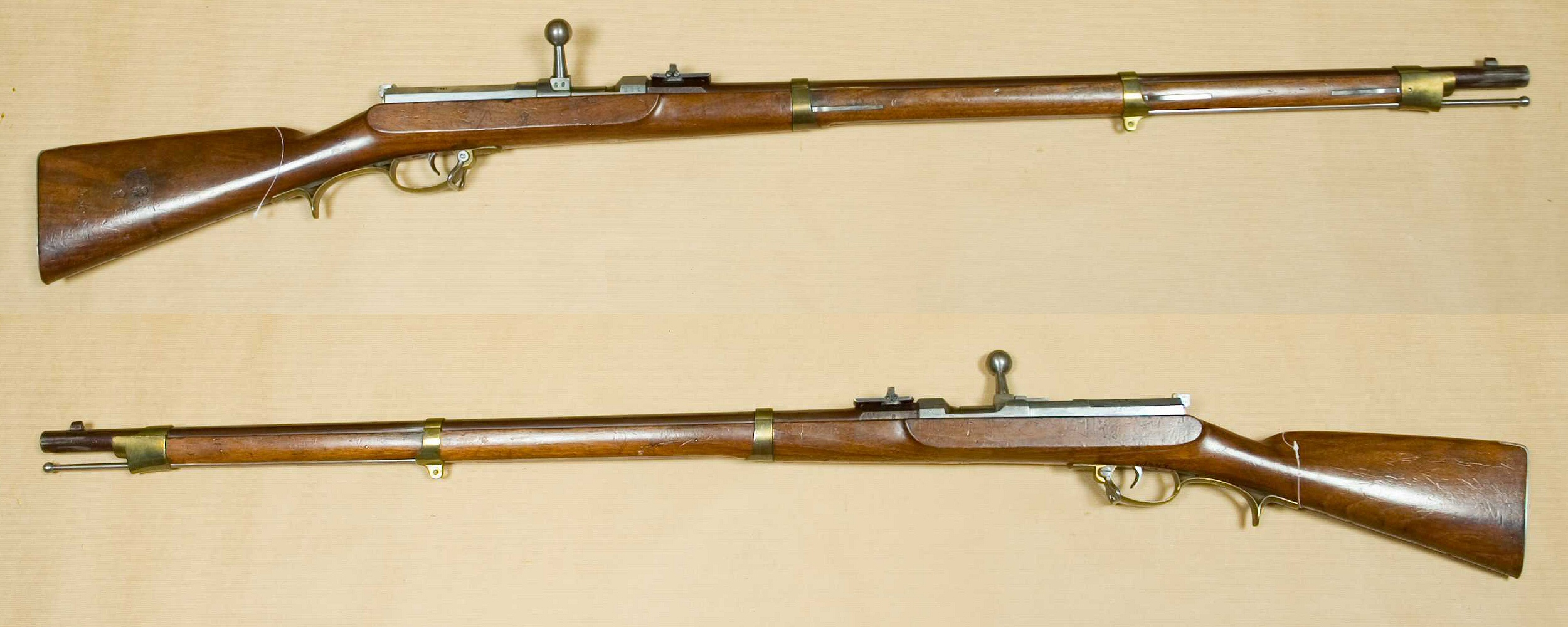 Dreyse Needle-gun, m/1841, Prussia. From the collections of Armémuseum (Swedish Army Museum), Stockholm.